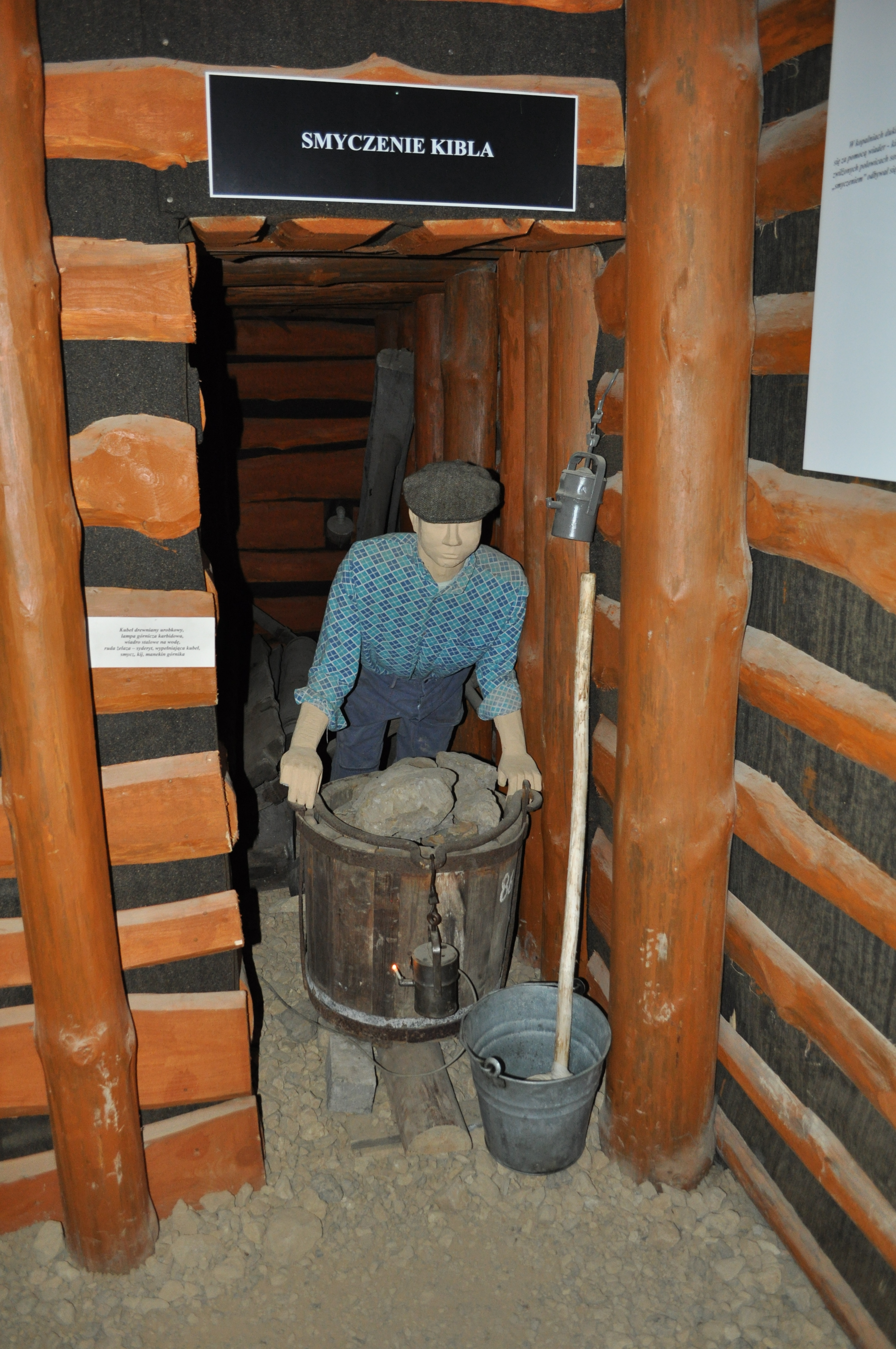 Industriada 2011 in Częstochowia